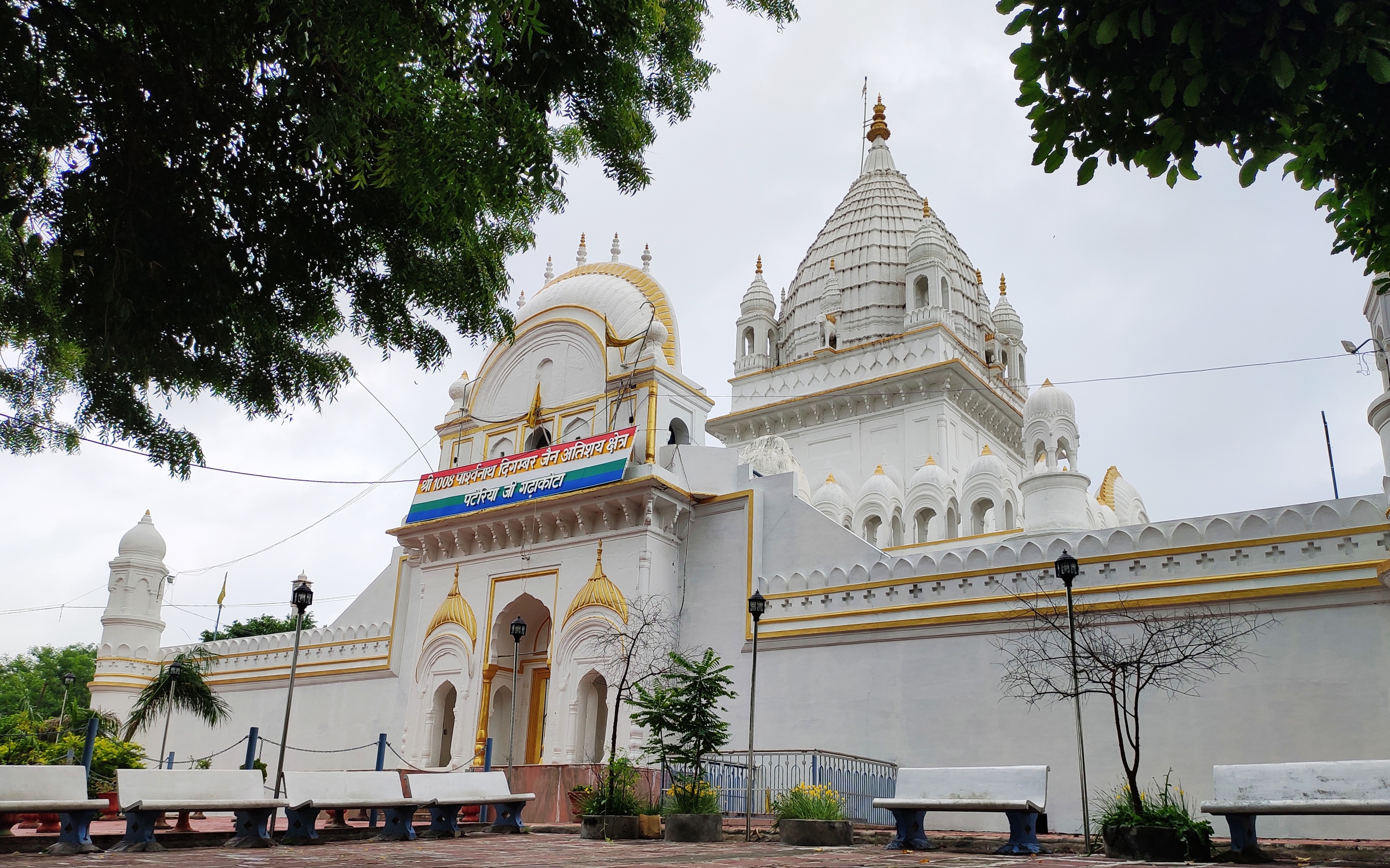 This image shows the front view of the holy temple.